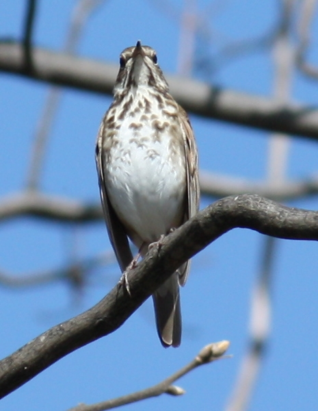 Hermit Thrush (Catharus guttatus). Photo taken in my backyard (Louisville,Kentucky) in March 2009